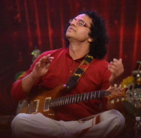 Prasanna at Chennayil Thiruvaiyaru concert in December 2015